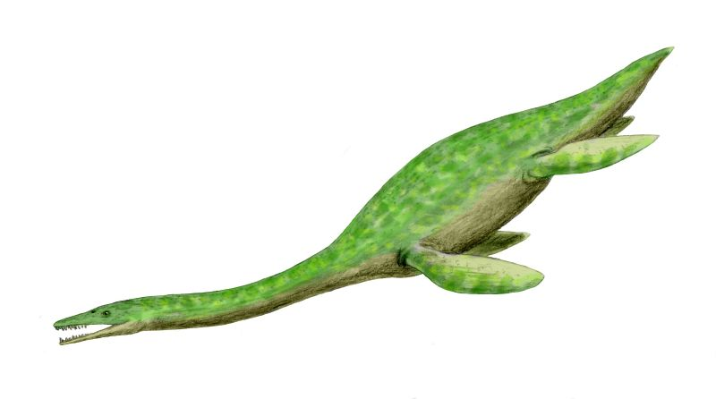 Thililua longicollis, a plesiosaur from the Late Cretaceous of Morocco, pencil drawing